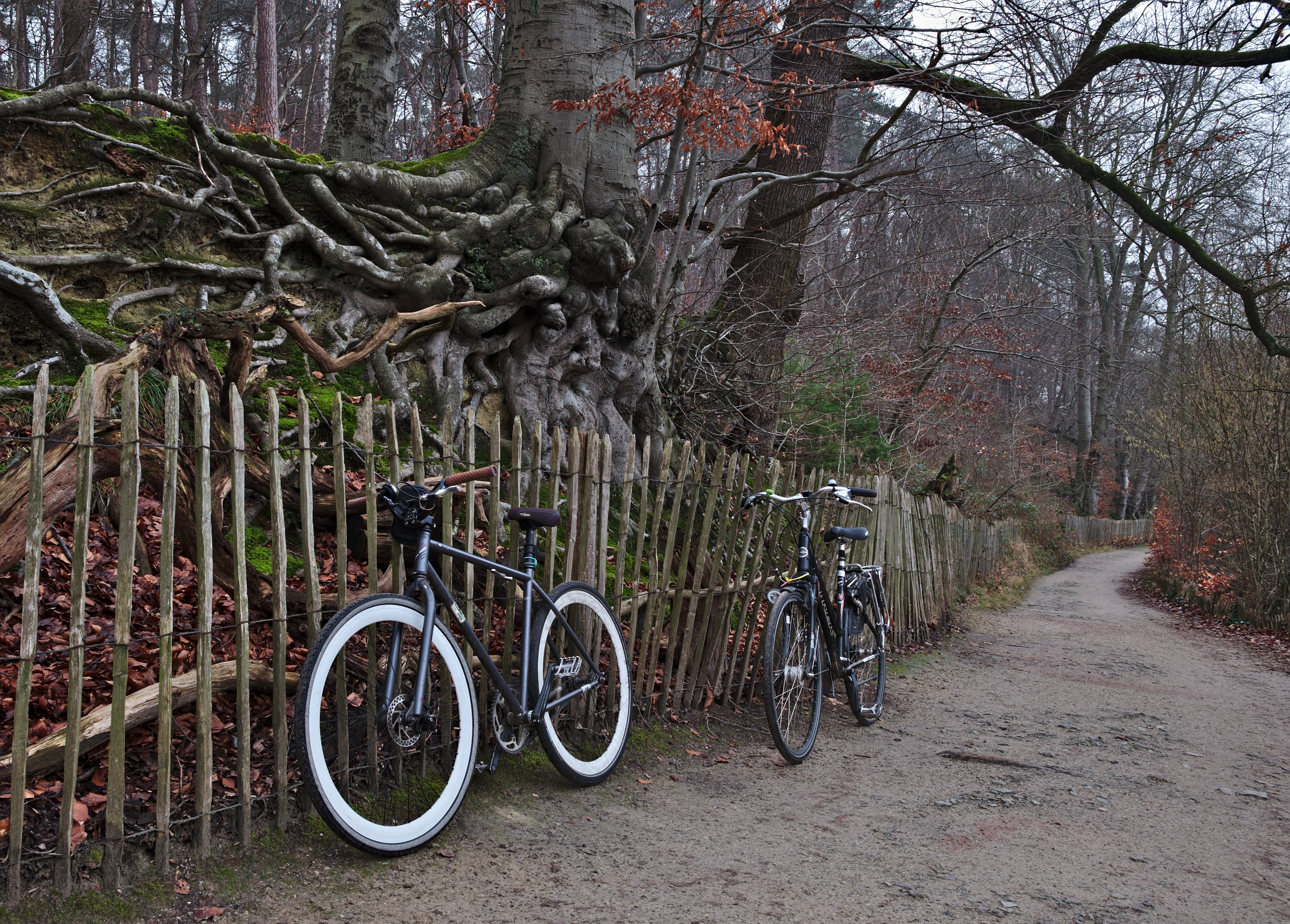 Recreational path with two bicycles and an interesting roots formation North of Étangs Chabots in Auderghem, Belgium (DSCF2566-hdr). Redline Urbis bicycle (foreground) and Trek bicycle (background)